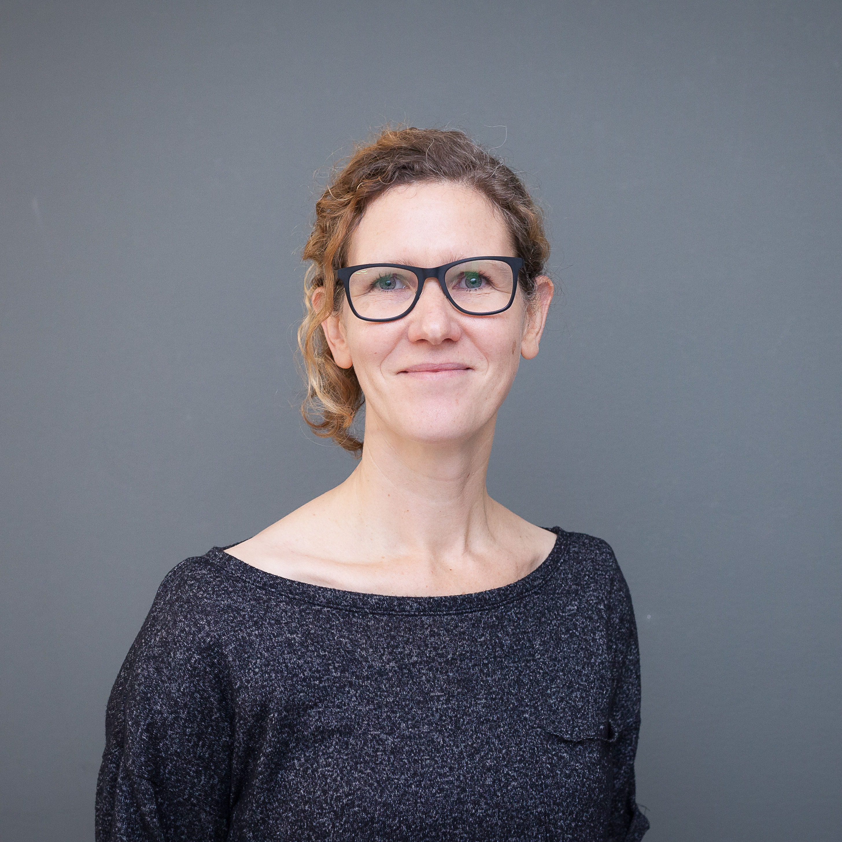 Ina Blümel